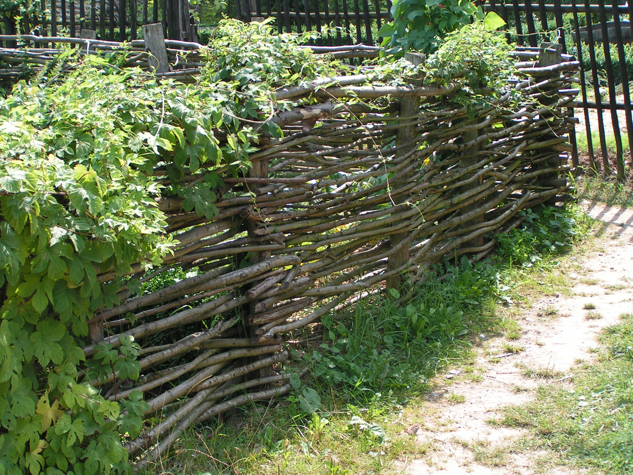 wood handmade fence